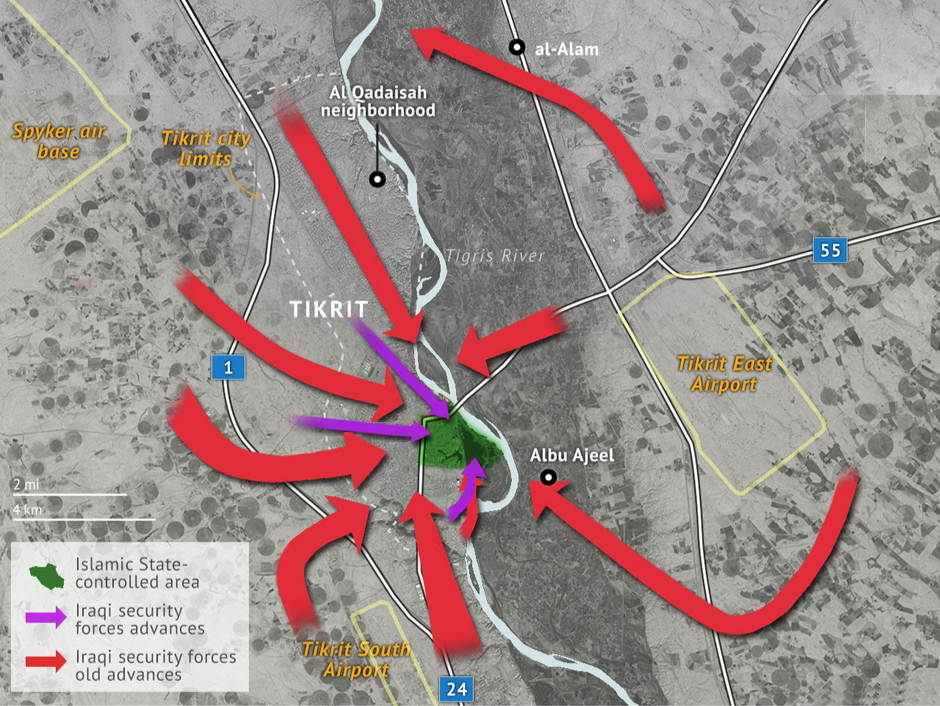 Map of the final push into the city center of Tikrit by the Iraqi Army and Shi'ite militas, during the Second Battle of Tikrit (March–April 2015). The map covers Iraqi offensives from March 13–29. After March 13, the offensive was paused for 2 weeks, due to the unexpectedly high Iraqi casualties, and the need to bring in urban warfare specialists reinforcements. On March 25, the offensive resumed, with Iraqi forces beginning the final push into the city center on March 29. The map was obtained from Stratfor Global Intelligence. The red arrows indicate the main Iraqi offensives prior to March 13, while the purple arrows (red in the original map) indicate the final push into the the city center of Tikrit. The area of central Tikrit held by ISIL is highlighted in green.